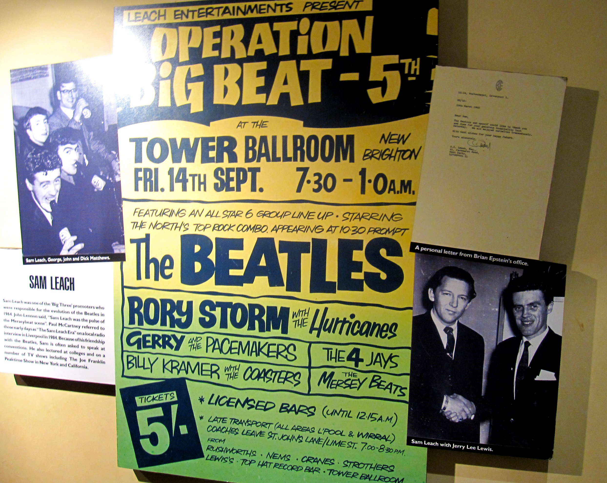 Taken in The Beatles Story exhibition in Liverpool. During the days of the burgeoning Liverpool Sound the venue began to be used for a series of spectacular dance promotions, the first beginning on 10 November 1961 under the name 'Operation Big Beat.' The show opened at 7.30pm and the Beatles appeared at 8pm. They then fulfilled another engagement at Knotty Ash Village Hall before returning for their second Tower appearance that evening at 11.30pm. Tickets for the event had been sold for weeks in advance at NEMS Whitechapel store, which was managed by Brian Epstein. Epstein had been aware of their existence for months and this was yet another example to disprove his disingenuous claim that he only heard about them when a boy walked into his store on 28 October. The first Operation Big Beat event drew an audience of 3,000 people. The groups appearing were the Beatles, Rory Storm & the Hurricanes, Gerry & the Pacemakers, the Remo Four, Earl Preston & the Tempest Tornadoes and Faron's Flamingos. Late night transport had to be arranged with the various local authorities as the event took place between 7.30pm and 2.00am. Tickets cost 6/- (30p). An added treat for the audience was the appearance of Emile Ford, who'd had several hits, including 'What Do You Want To Make Those Eyes At Me For?' and 'Slow Boat to China.' He got up on stage and sang with Rory Storm & the Hurricanes while American singer Davy Jones joined the Beatles on stage and sang two numbers with them. The Beatles returned to top the bill again on 1 December 1961 at a six-group extravaganza which attracted 2,000 people.